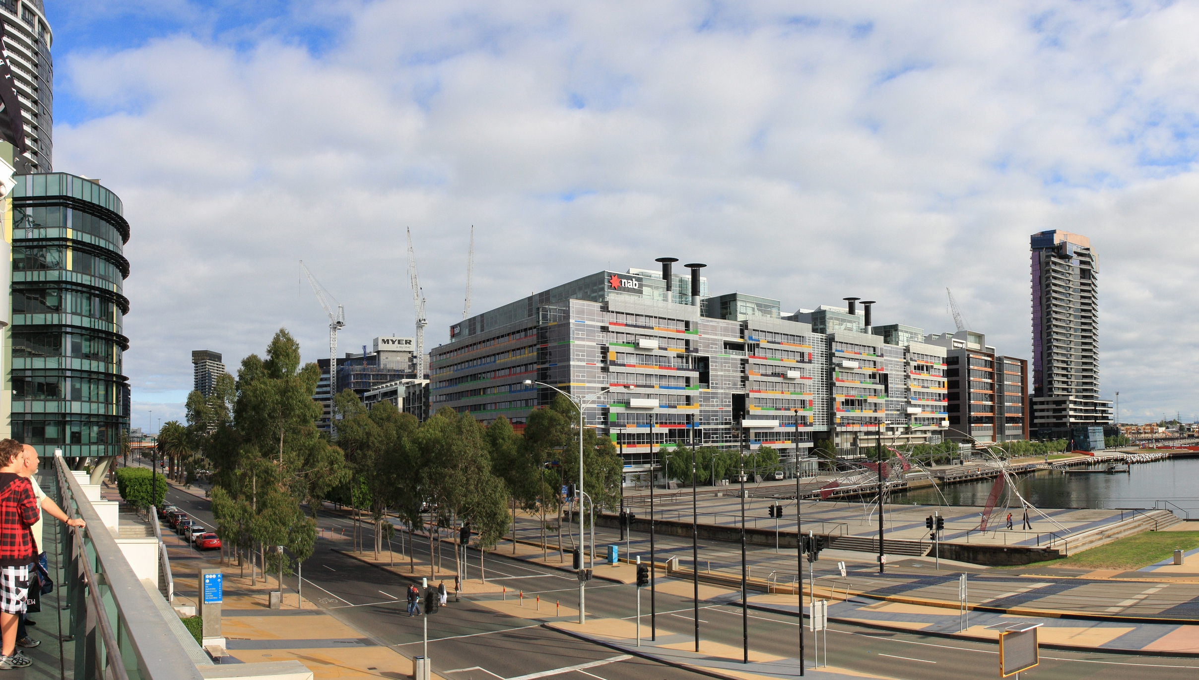 Melbourne Docklands area, taken from the terraces of Etihad Stadium